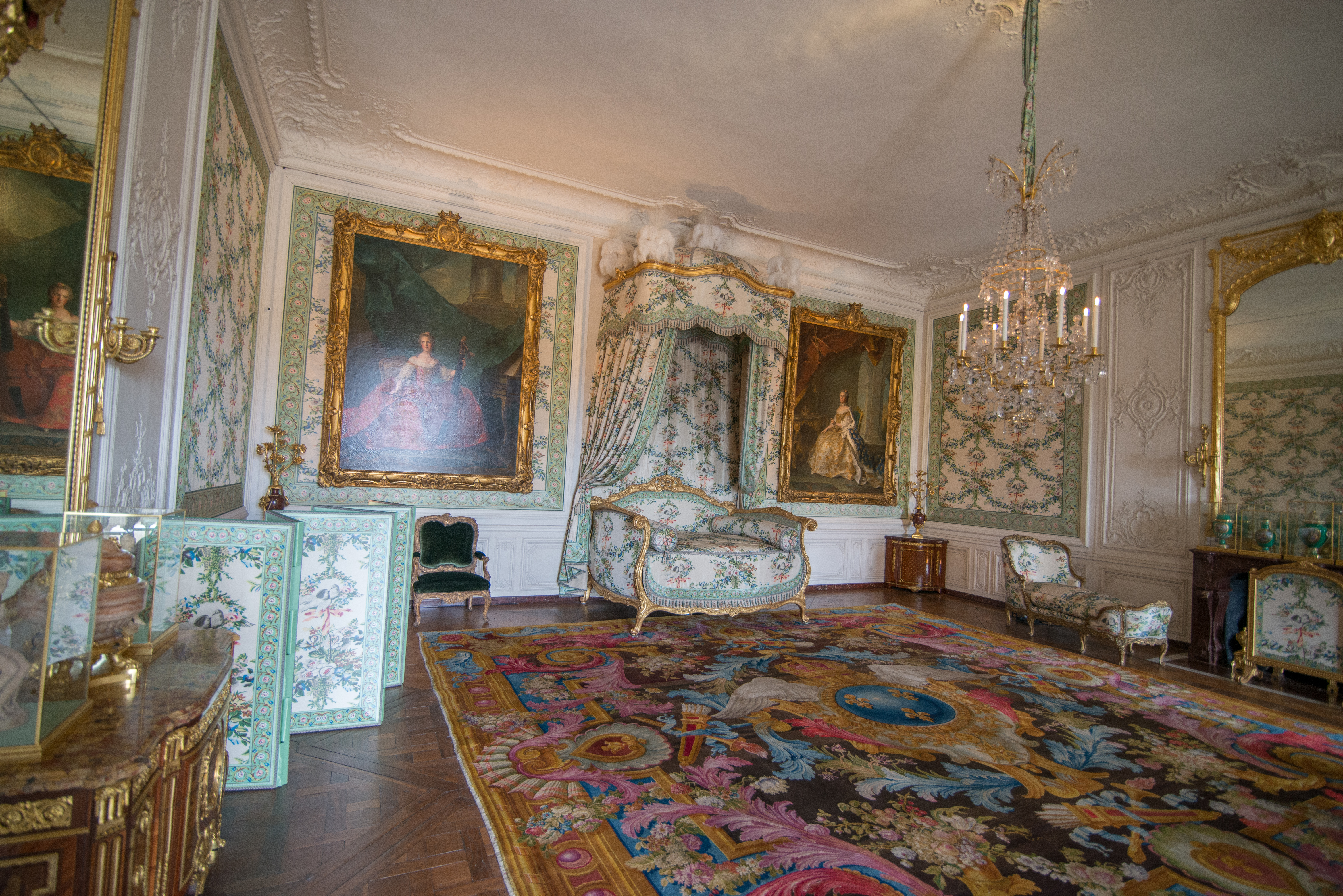 The Palace of Versailles, or simply Versailles, is a royal château in Versailles in the Île-de-France region of France. It is also known as the Château de Versailles. When the château was built, Versailles was a country village; today, however, it is a wealthy suburb of Paris, some 20 kilometres southwest of the French capital. The court of Versailles was the centre of political power in France from 1682, when Louis XIV moved from Paris, until the royal family was forced to return to the capital in October 1789 after the beginning of the French Revolution. Versailles is therefore famous not only as a building, but as a symbol of the system of absolute monarchy of the Ancien Régime. Tourist attraction and art exhibition site The Fifth Republic has enthusiastically promoted the museum as one of France's foremost tourist attractions. The Public Establishment of the Palace, Museum and National Estate of Versailles, a French établissement public à caractère administratif, and Château de Versailles Spectacles organized a Versailles exhibition of the modern art of Jeff Koons in 2008. Six of the works on display came from "the vast private collection of François Pinault, France's wealthiest art collector." In 2008, official Versailles figures stated that nearly five million people visit the château, and 8 to 10 million walk in the gardens, every year